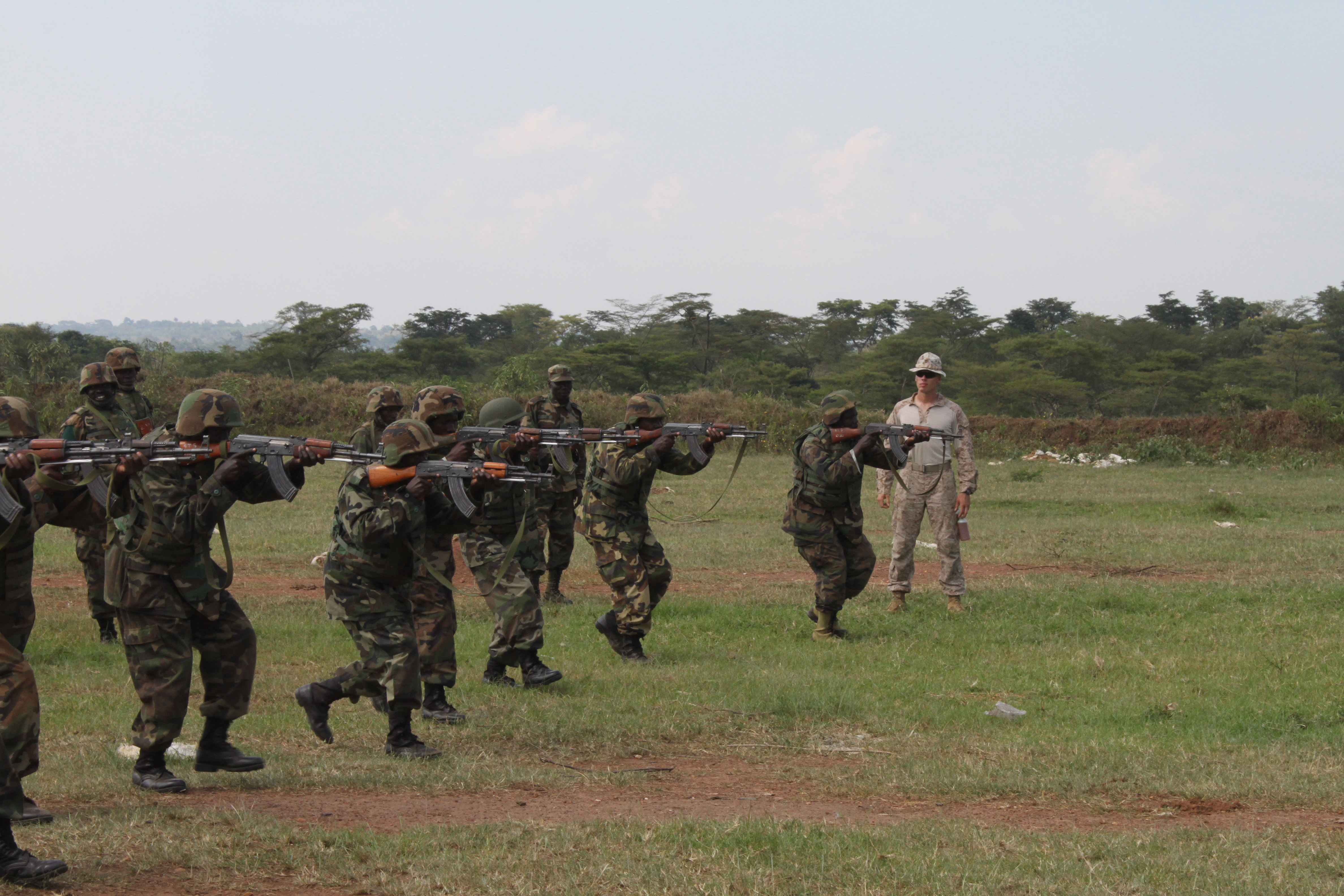 Soldiers with the Uganda People's Defense Force move forward with weapons at the ready as a training team of U.S. Marines coaches them in small unit tactics and marksmanship. The Uganda forces are expecting to participate in the African Union Mission in Somalia. The Marines are made up of members of the 24th Marine Expeditionary Unit and Special Purpose Marine Air Ground Task Force 12.